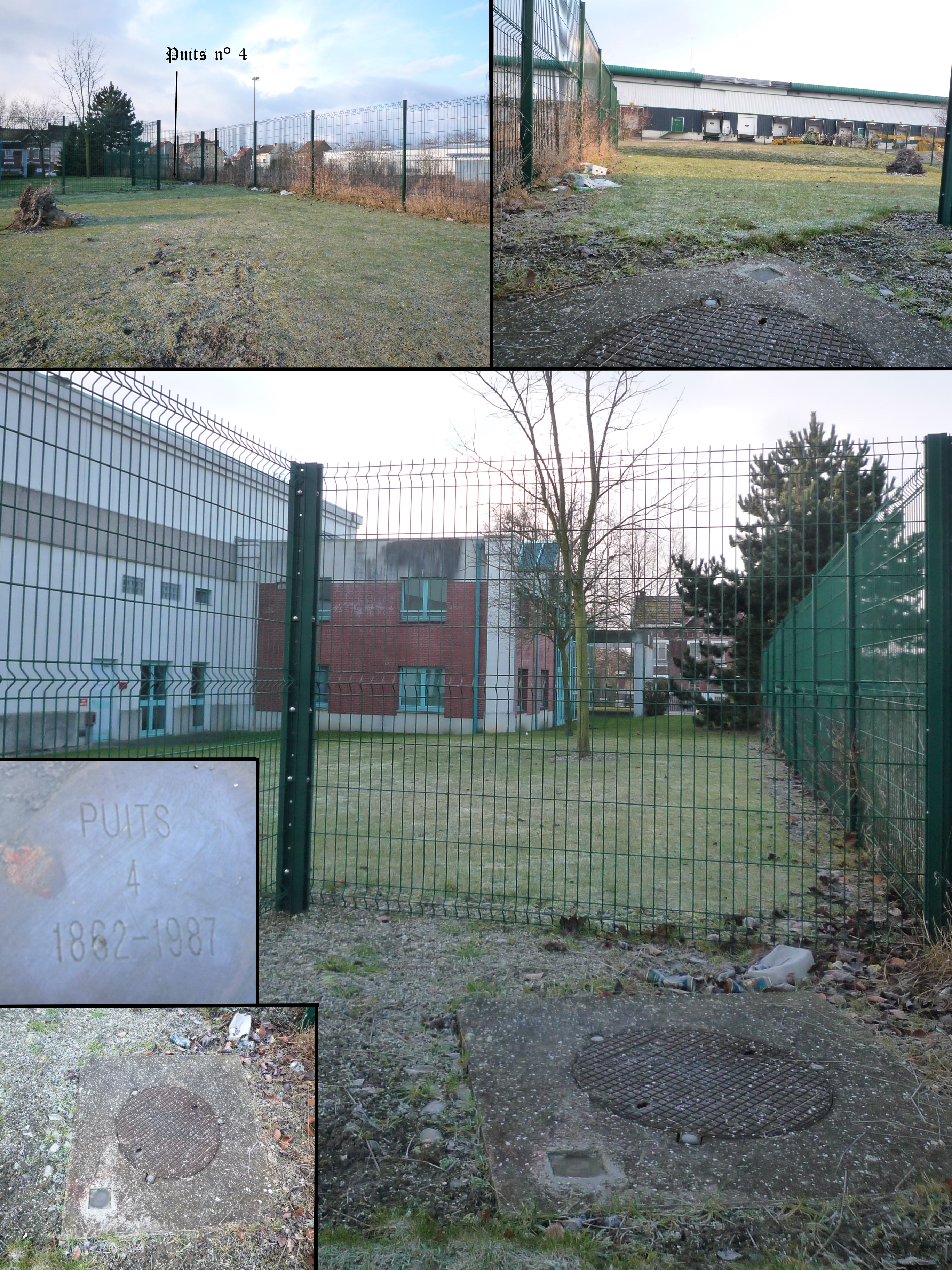 Pit n° 4, Compagnie des mines de Lens, Lens, Pas-de-Calais, Nord-Pas-de-Calais, France.